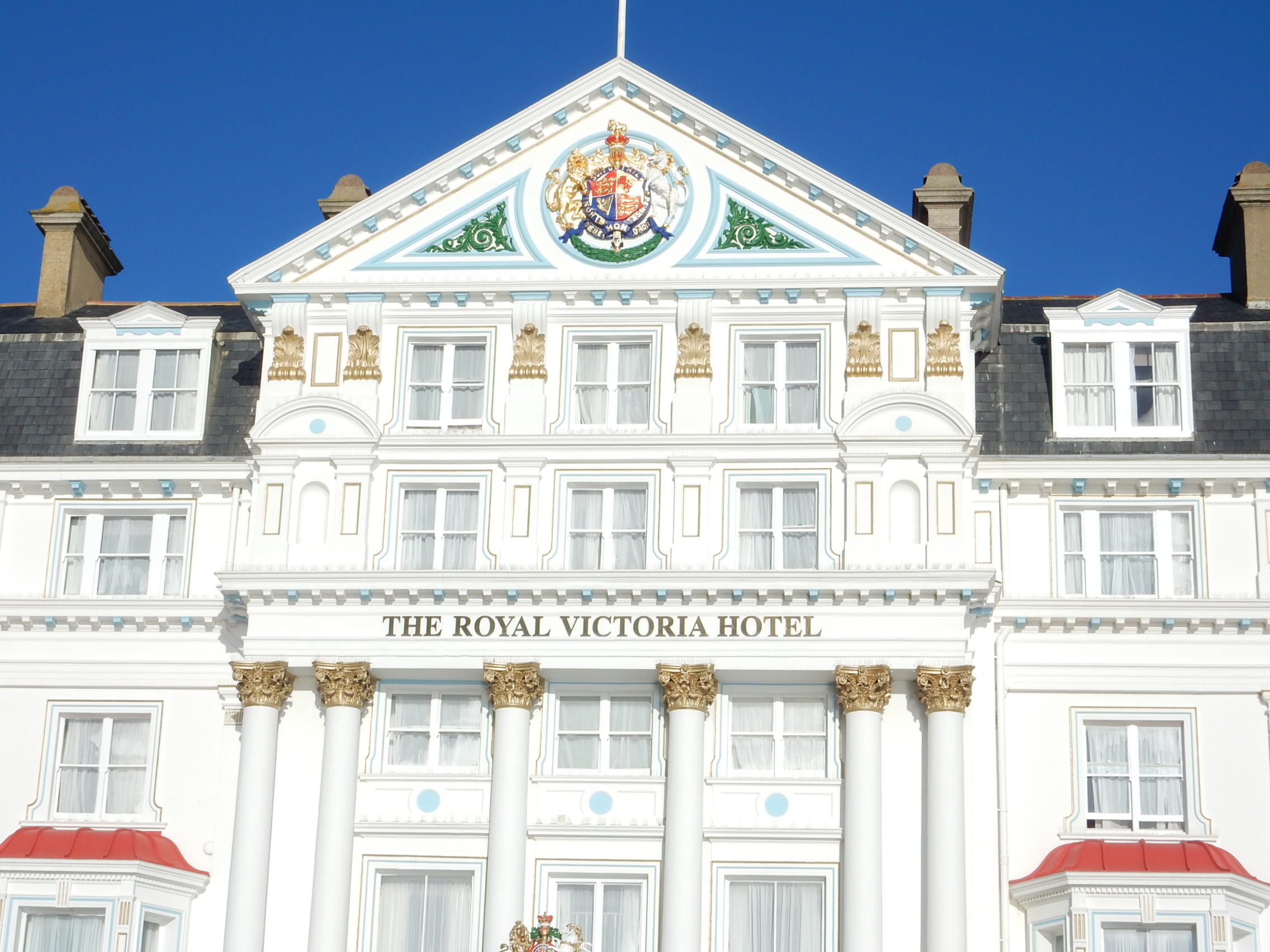 St Leonards-on-Sea, Best Western Royal Victoria Hotel, detail